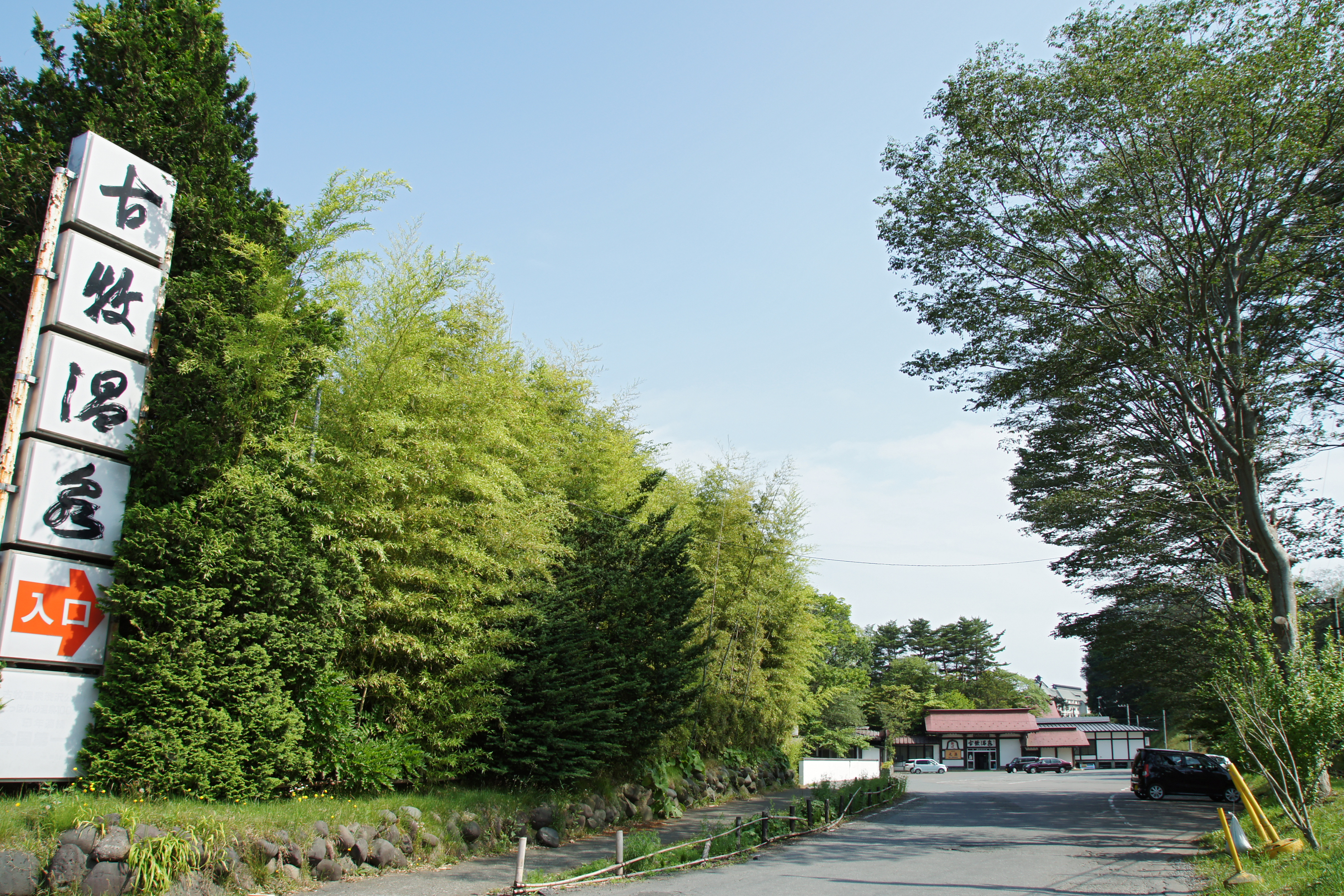 Komaki Onsen at Misawa, Aomori prefecture, Japan